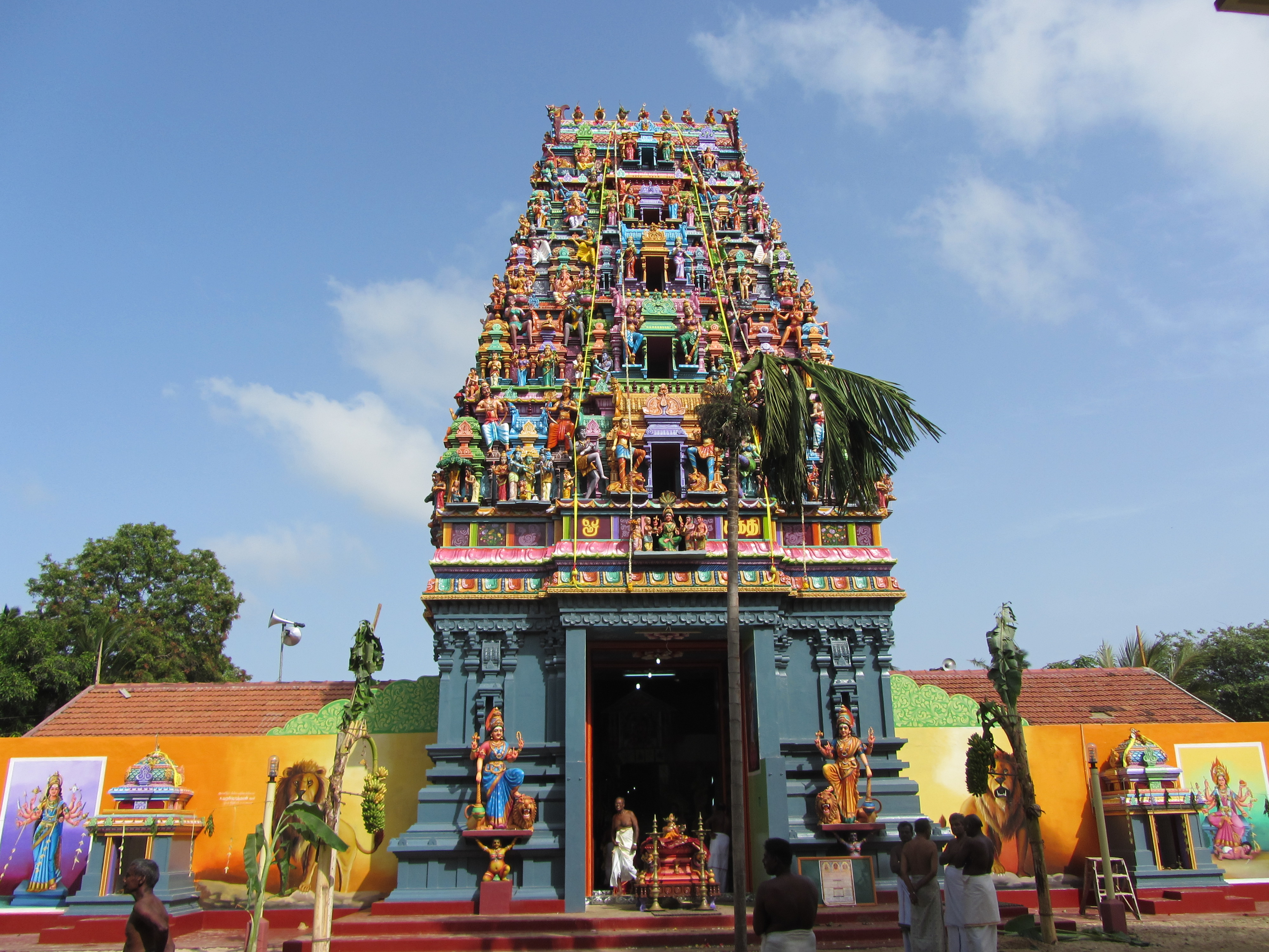 This is a photograph taken at the renovation ceremony of the Hindu Temple named Ariyalai Maha Mari Amman Kovil